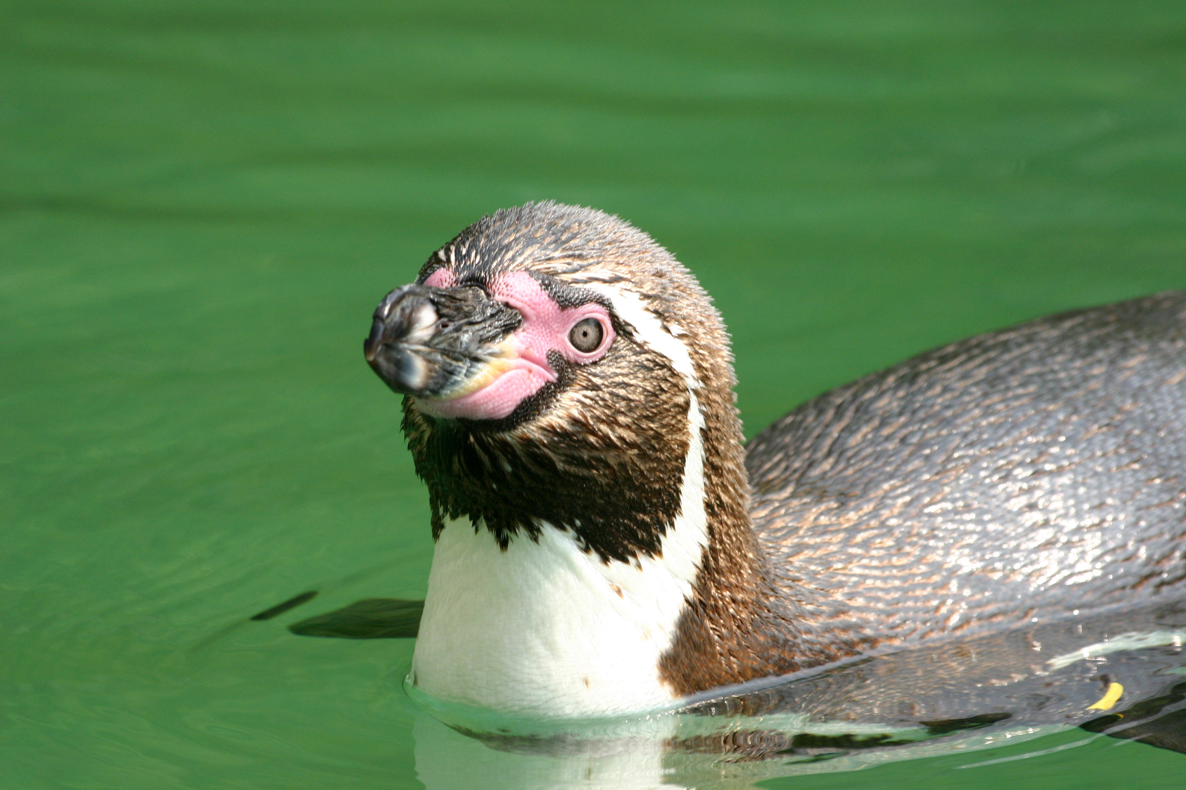 Humboldt Penguin in the ZooParc Beauval (Centre region, France)